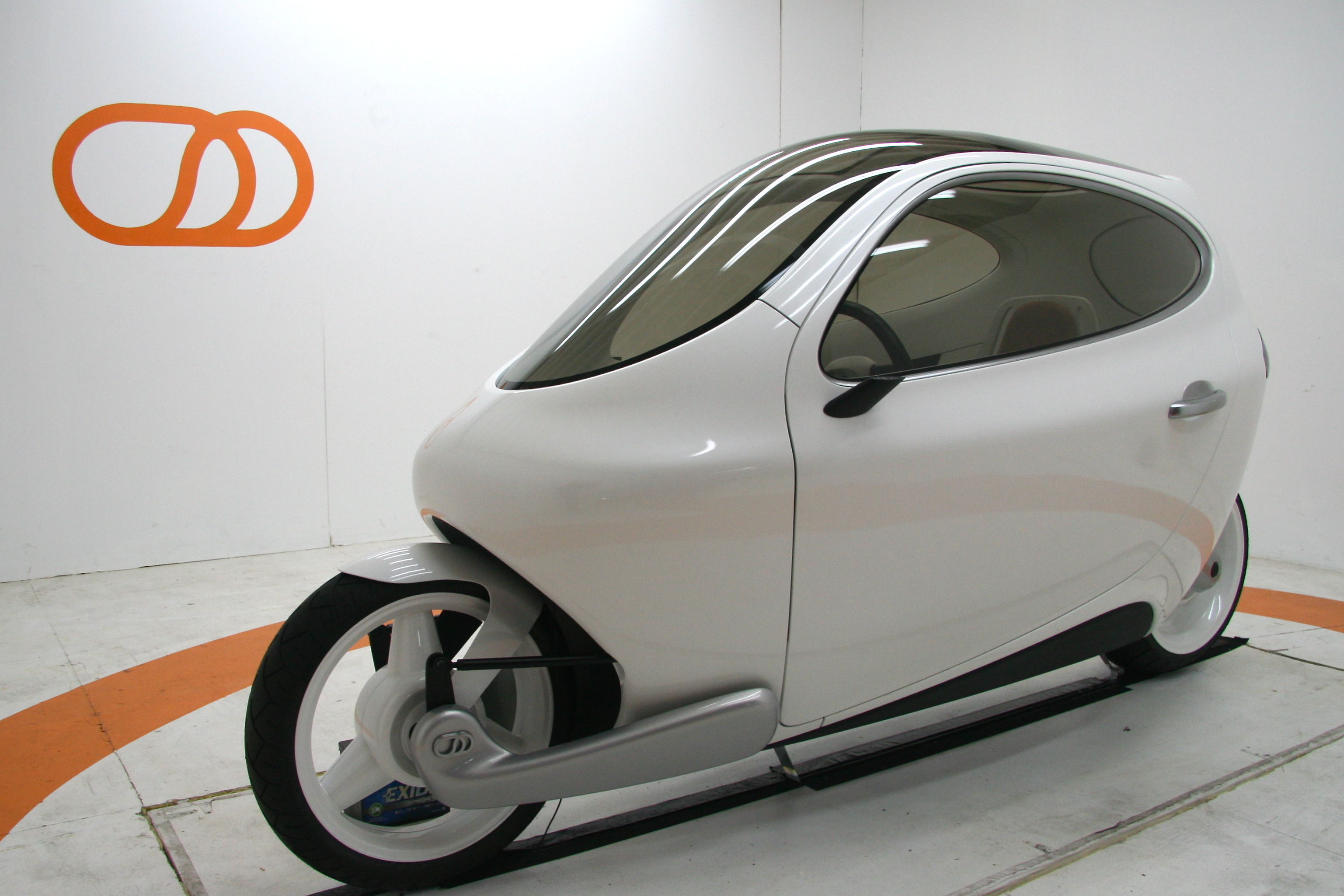 After learning that 70% of U.S. traffic consists of people driving alone, Danny Kim was convinced that 4,000-pound vehicle wasn't the best way to transport one person. It was time for a truly smart commuter car designed from the ground up unlike anything produced by the auto industry so far. "It became apparent to me that there was a lot of waste in our transportation system, so I decided to cut the car in half and build an electric, gyro-stabilized vehicle," he said. This idea led him become founder and CTO of Lit Motors, a startup based in San Francisco.